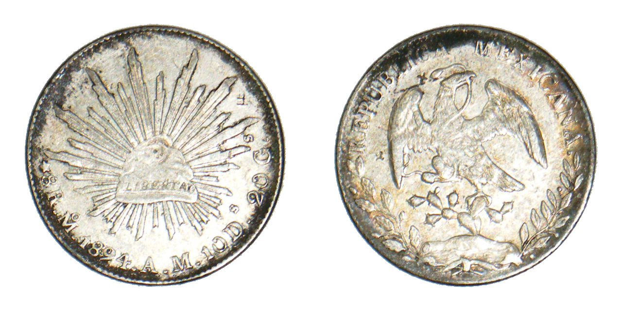 Mexico8real 1894